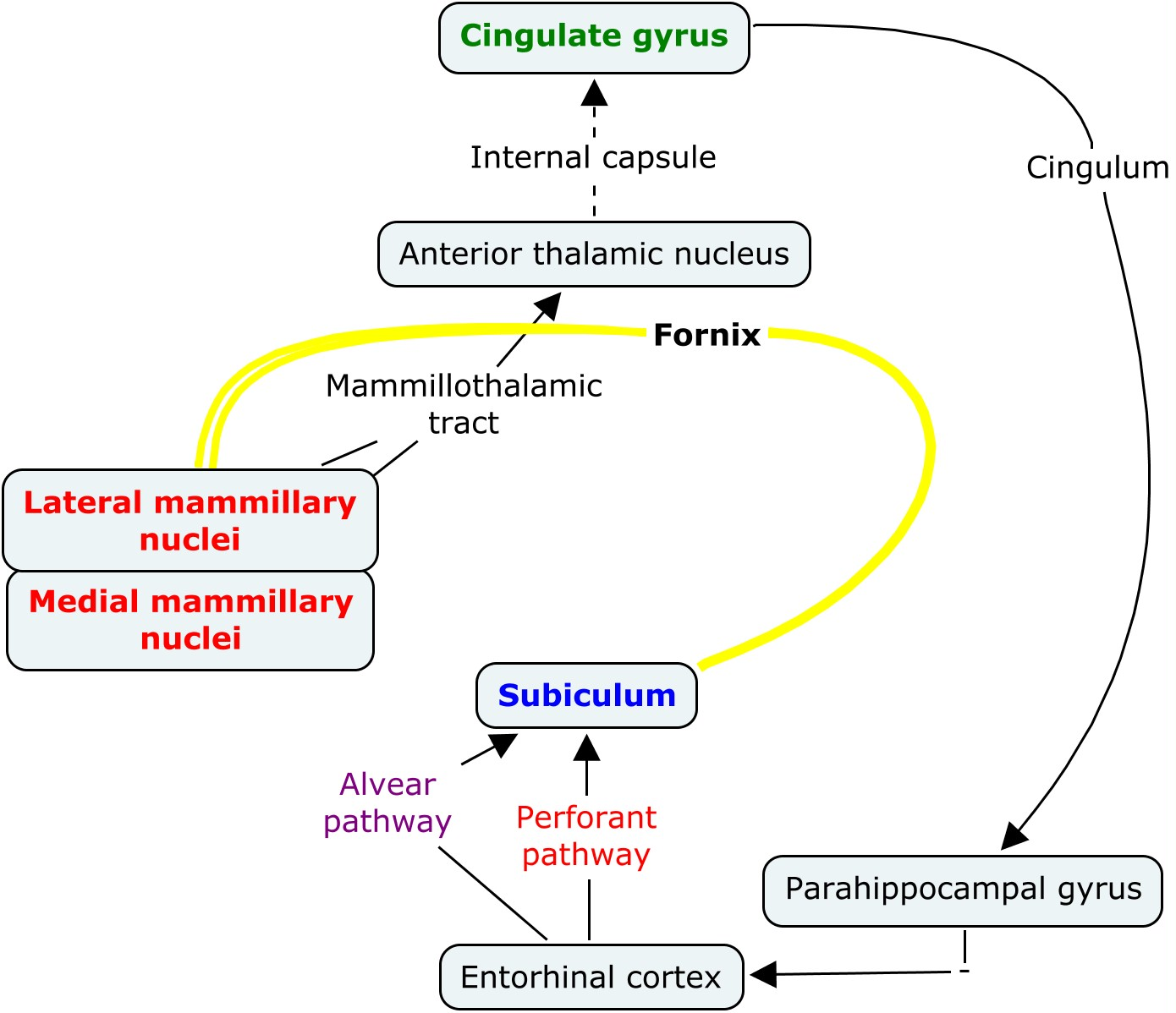 Jakob circuit ("Papez circuit" has recently been clarified as a misattribution, see article "Papez Circuit". Originally called "the visceral brain" in Christfried Jakob's 1908, 1909, 1911, 1913 and many other publications, the image is intended by its author (2007) as a heuristic model for reviewing the pathways of the visceral brain.